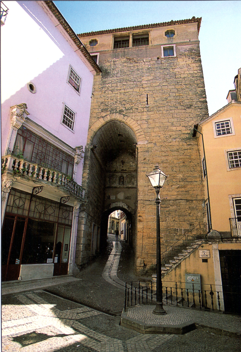 Außenansicht des Turms